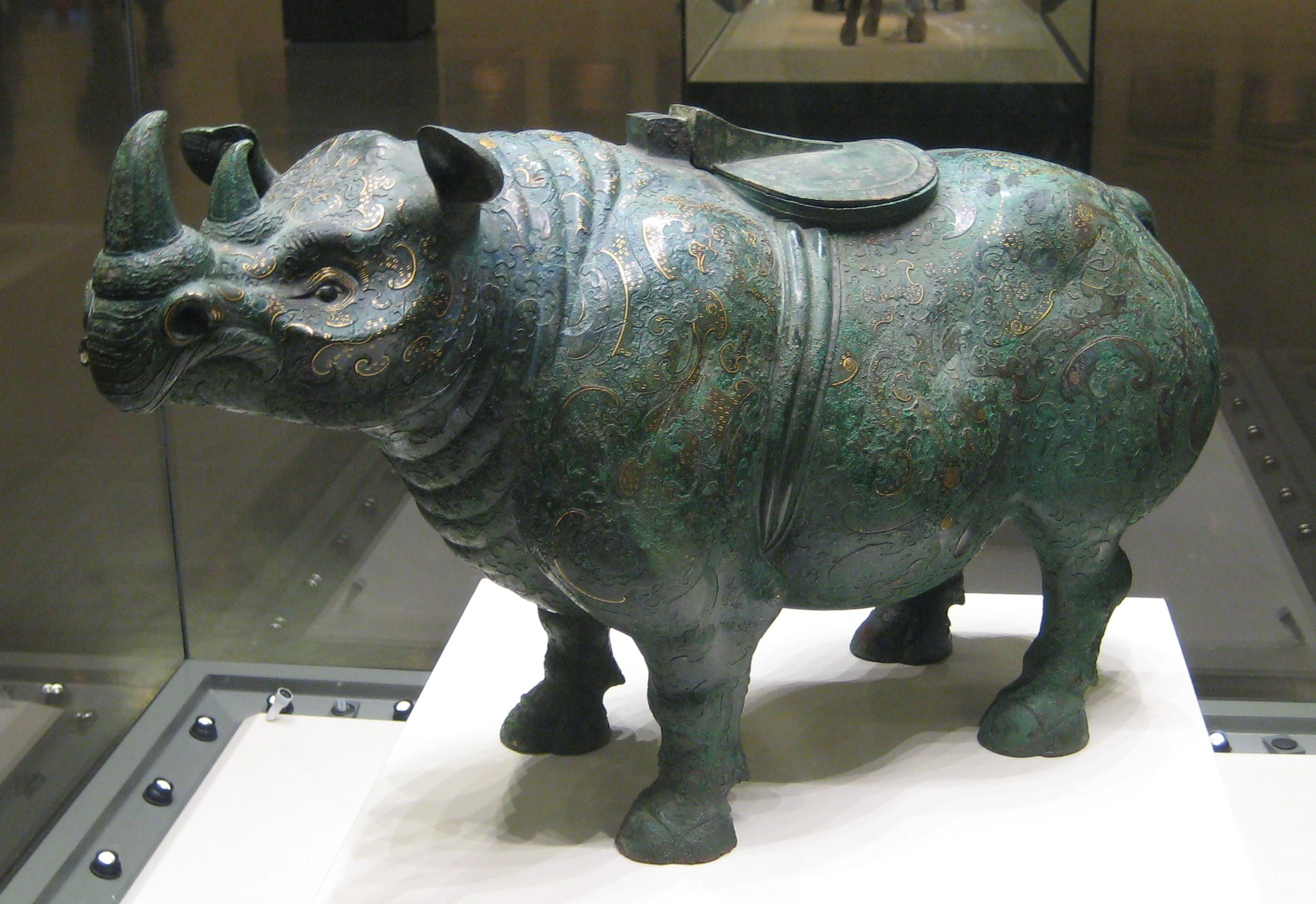 Bronze zun (wine vessel) in the shape of a rhinoceros, with gold and silver inlaid cloud designs, from the Western Han Dynasty. Unearthed at Xingping, Shaanxi Province, 1963.